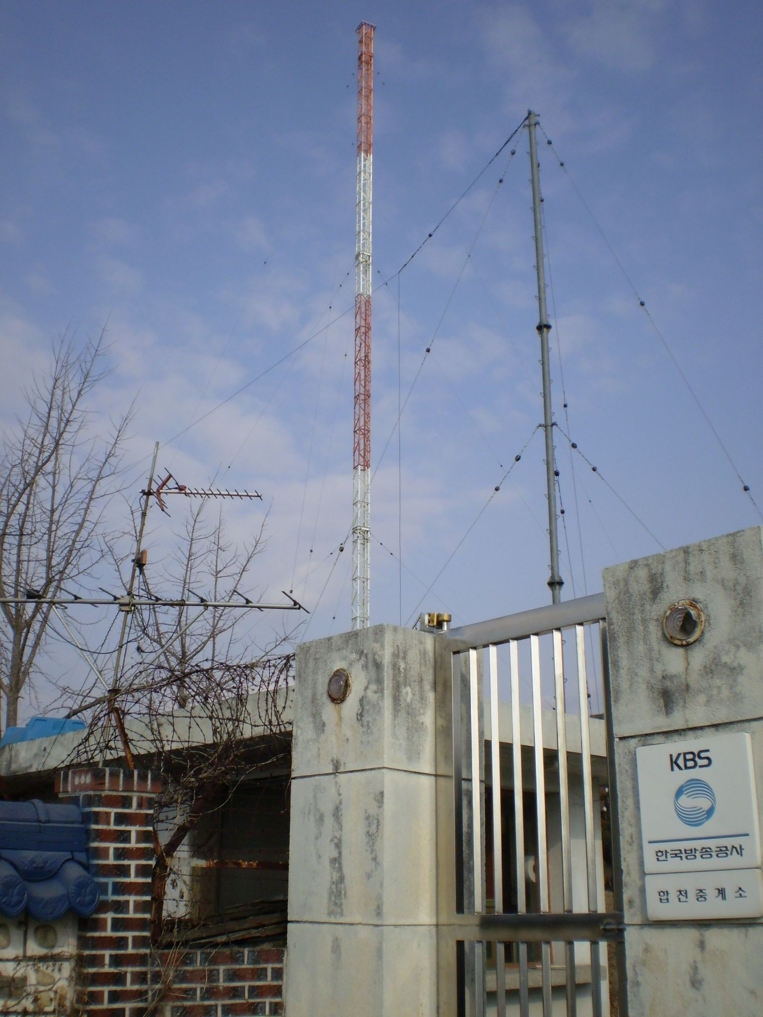 Local KBS transmitter in Hapcheon, Gyeongsangnam-do, South Korea.